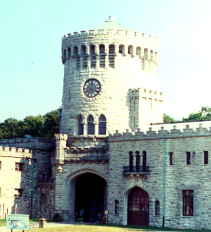 Castle Gould (detail), Sands Point PreserveSands Point, New York